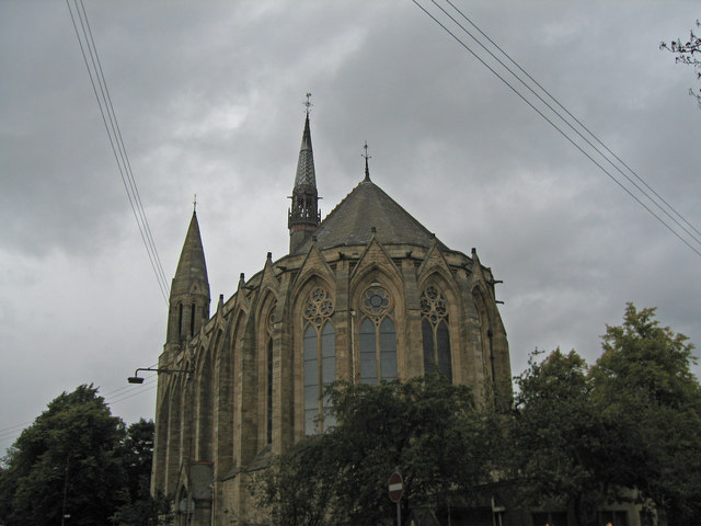 Kelvinside Hillhead Parish Church, Glasgow